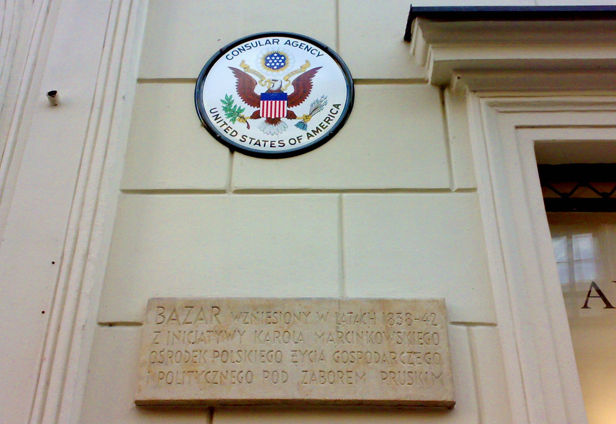 Consulat of USA - Poznan.